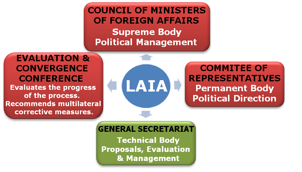 LAIA - Institutional Structure